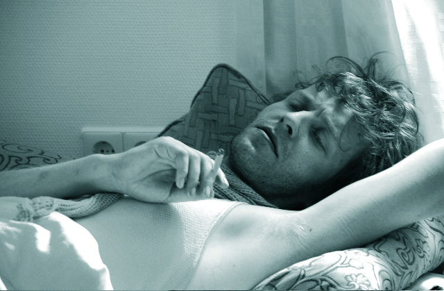 official pressphoto of Popnoname, Jens-Uwe Beyer